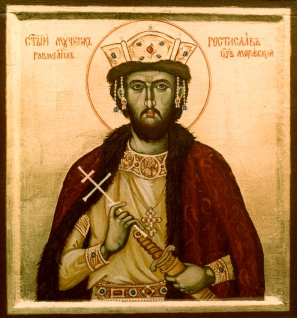 Painting of Prince Rastislav of the Slovak National Museum in Bratislava. The painting is part of the exhibition "Ancient Kings of Slovakia."